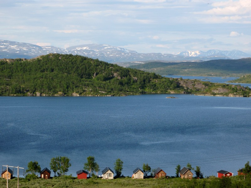 Vassejavri near Riksgränsen, Sweden